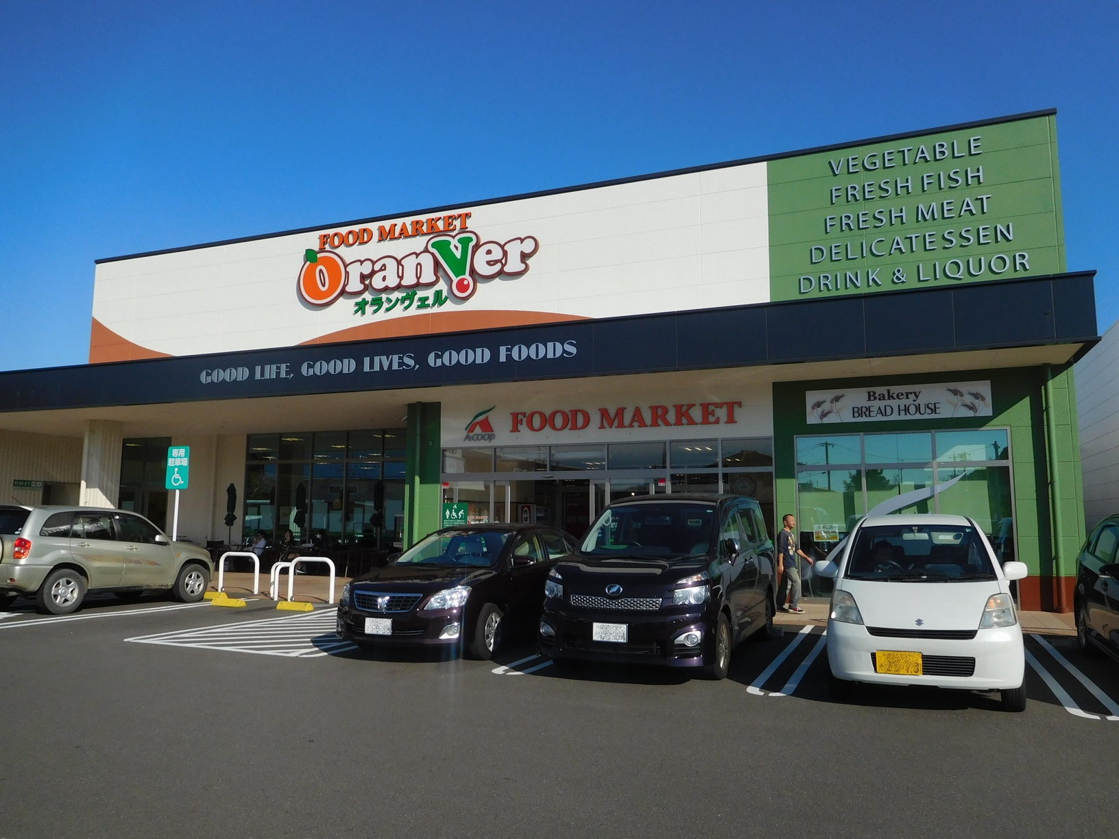 The Supermarket "A-COOP Oran ver" (Miyazaki City, Japan)